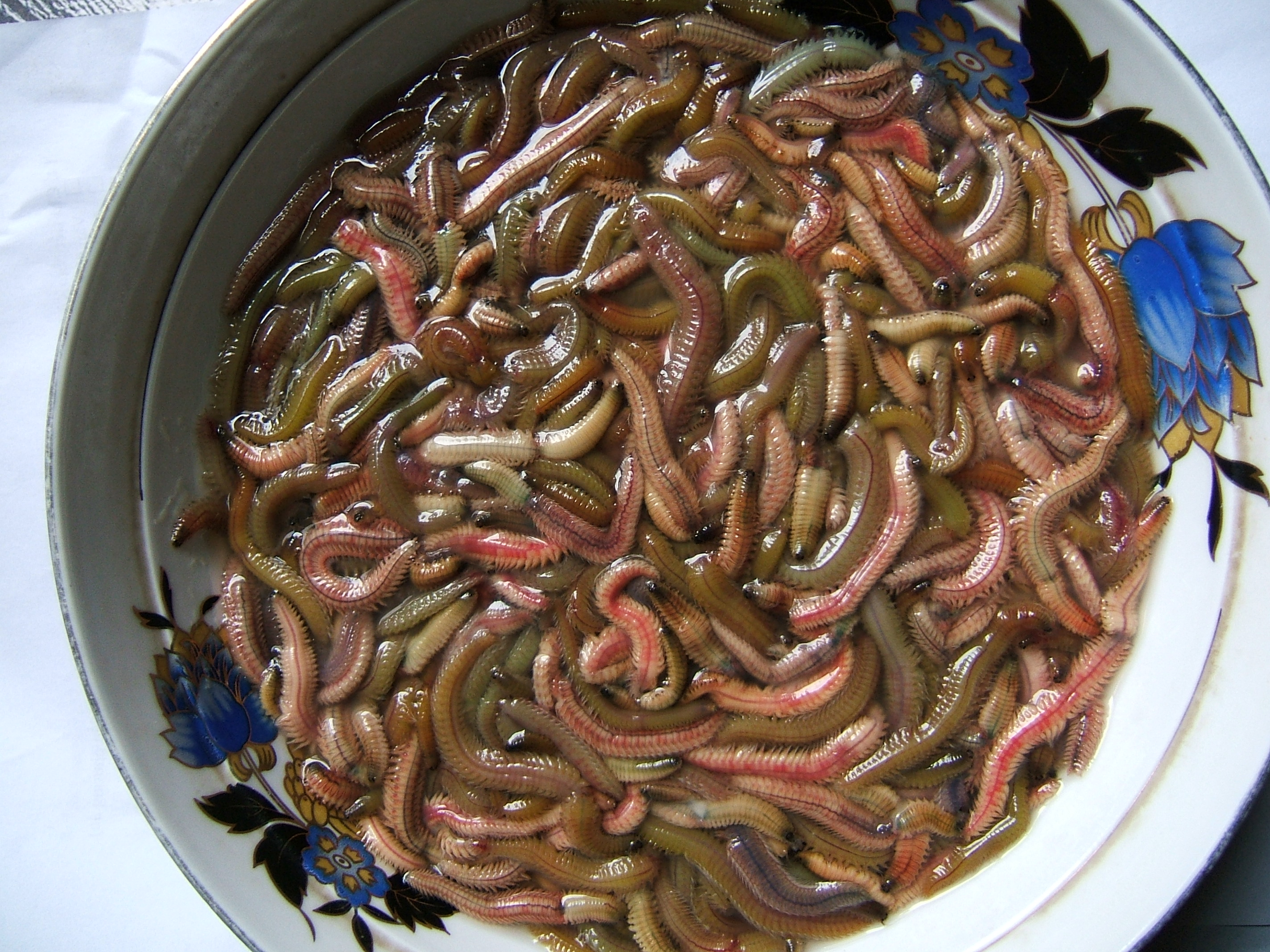 Nereididae in Cuisine of Vietnam. Tylorrhynchus heterocheatus.